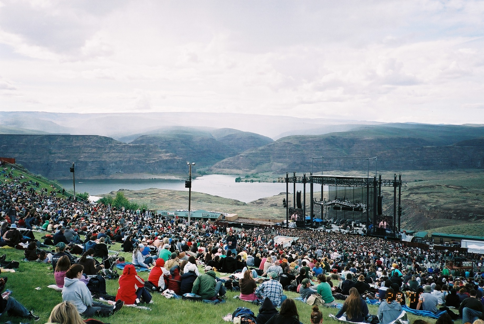 The Gorge Amphitheater in George, Washington overlooking the Columbia River during the 2006 Sasquatch! Music Festival